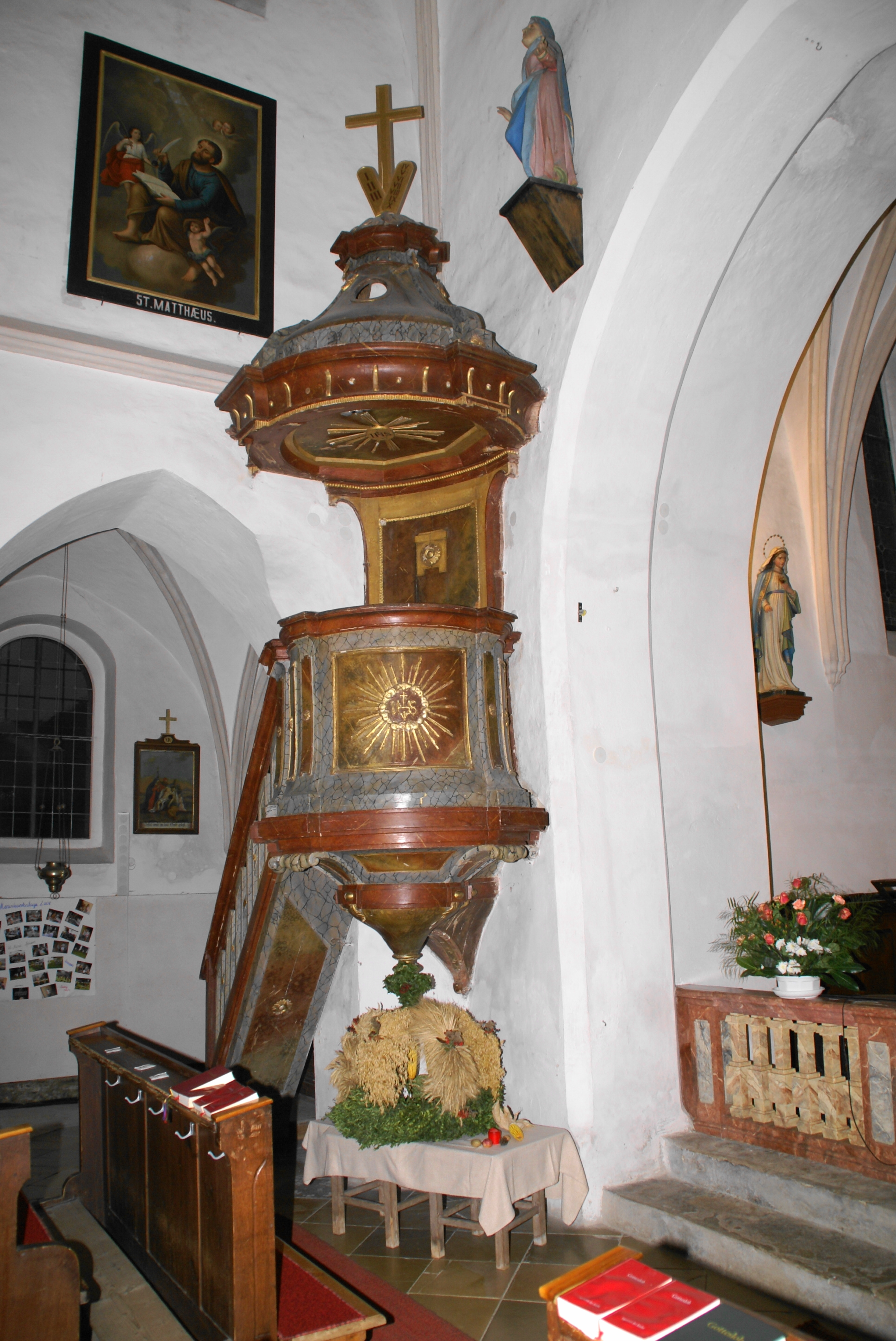 gotik church from kleinhain, near st.pölten, lower austria, origin 11./12. century, pulpit